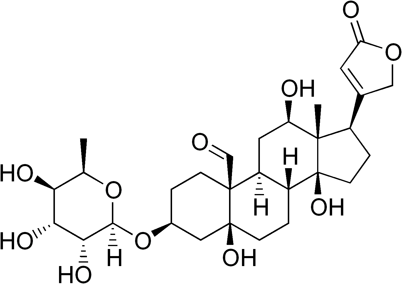 chemical structure of alpha-antiarin